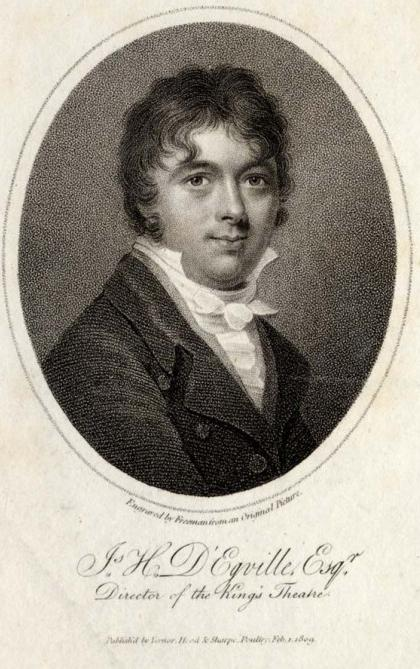 James Harvey D'Egville (ca. 1770 – ca. 1836) was a British dancer and choreographer. Between 1799 and 1809 he was choreographer at the King's Theatre, now Her Majesty's Theatre.